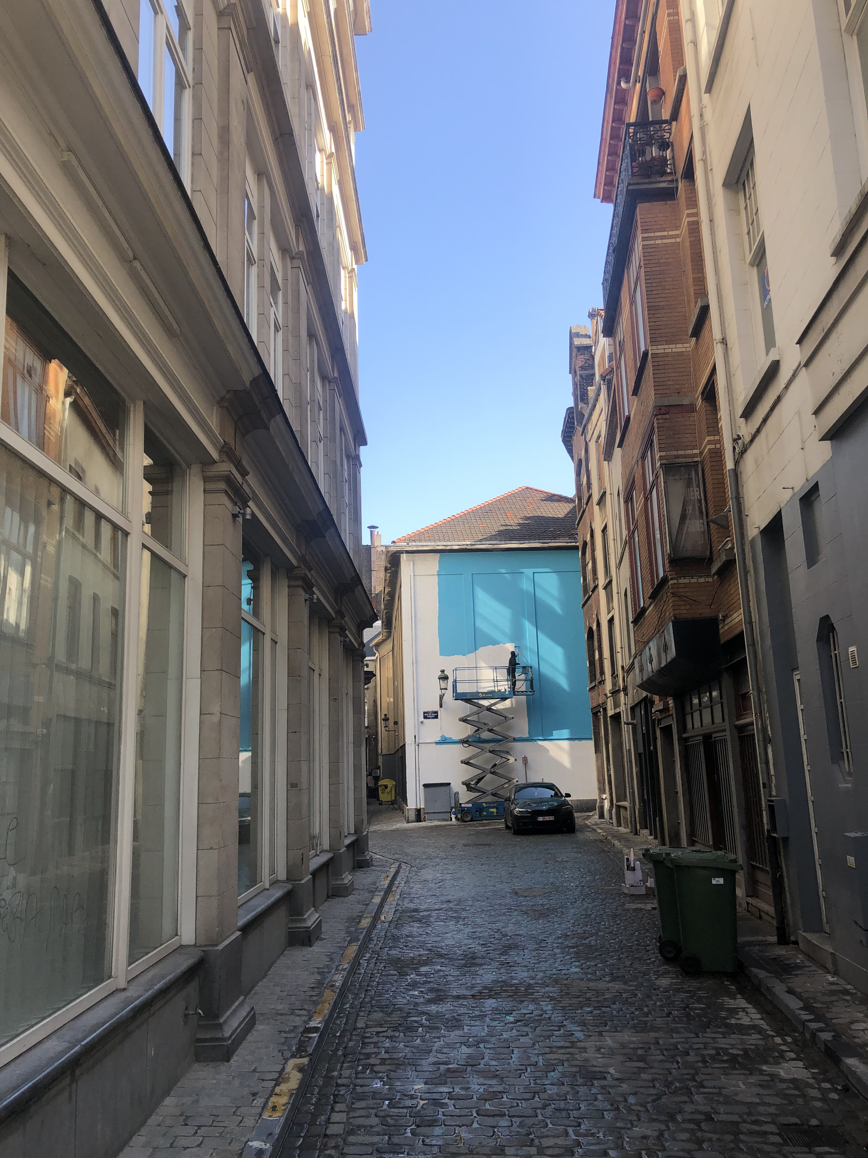 Marché aux peaux street, 1000 Brussels/ Belgium